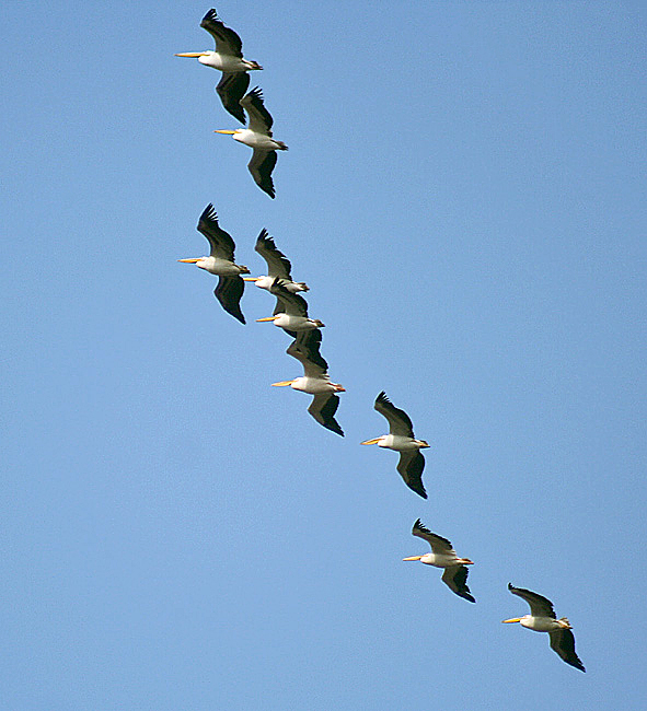 Great White Pelican Pelecanus onocrotalus at Bharatpur, Rajasthan, India.